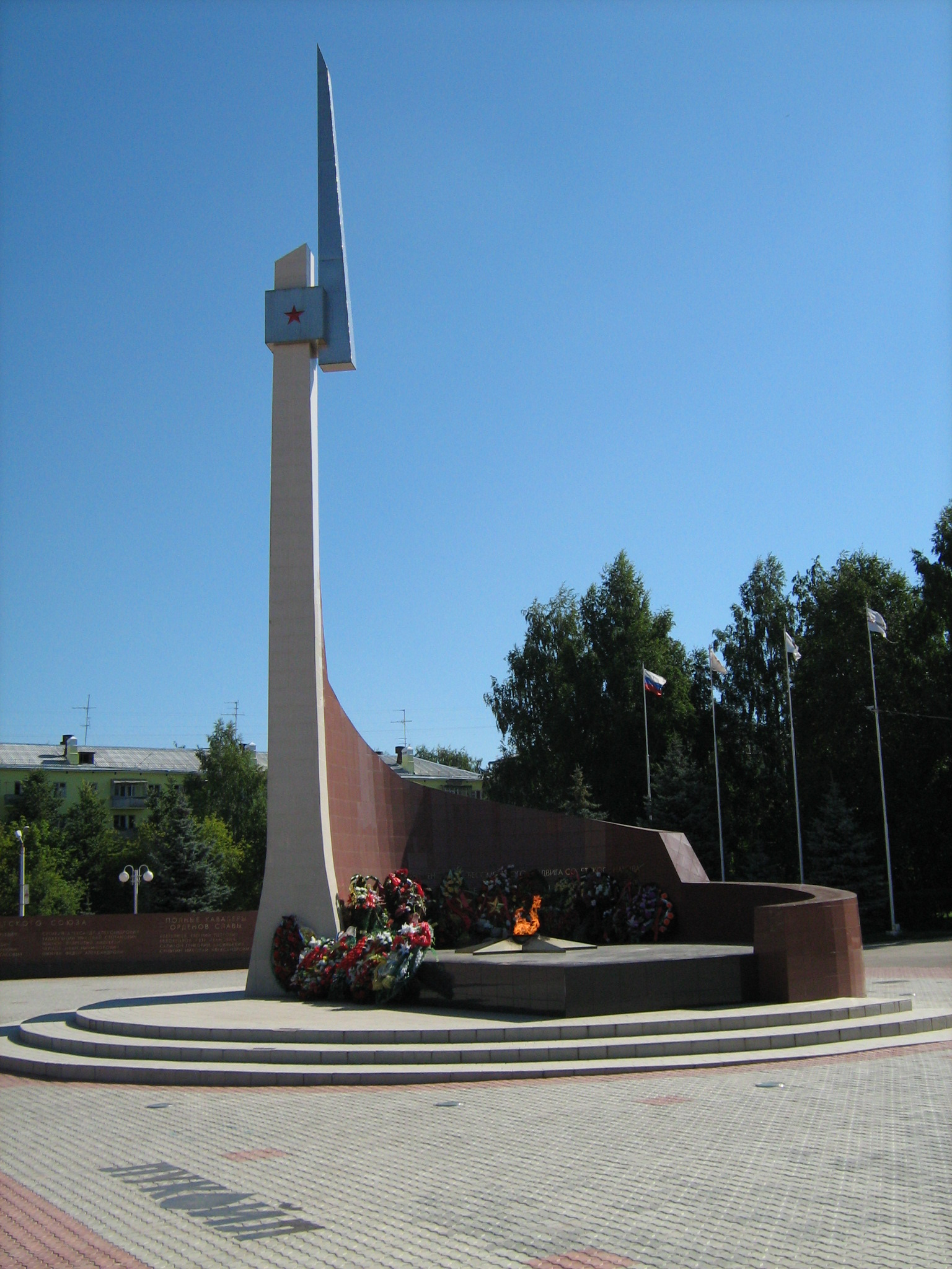 Ploshchad' Mira (Peace Square). The square, and the WWII monument, have been recently repaired, with a contribution from LUKOil - who, of course, did not miss the chance to remind all passer-bys what the city's most important company is.